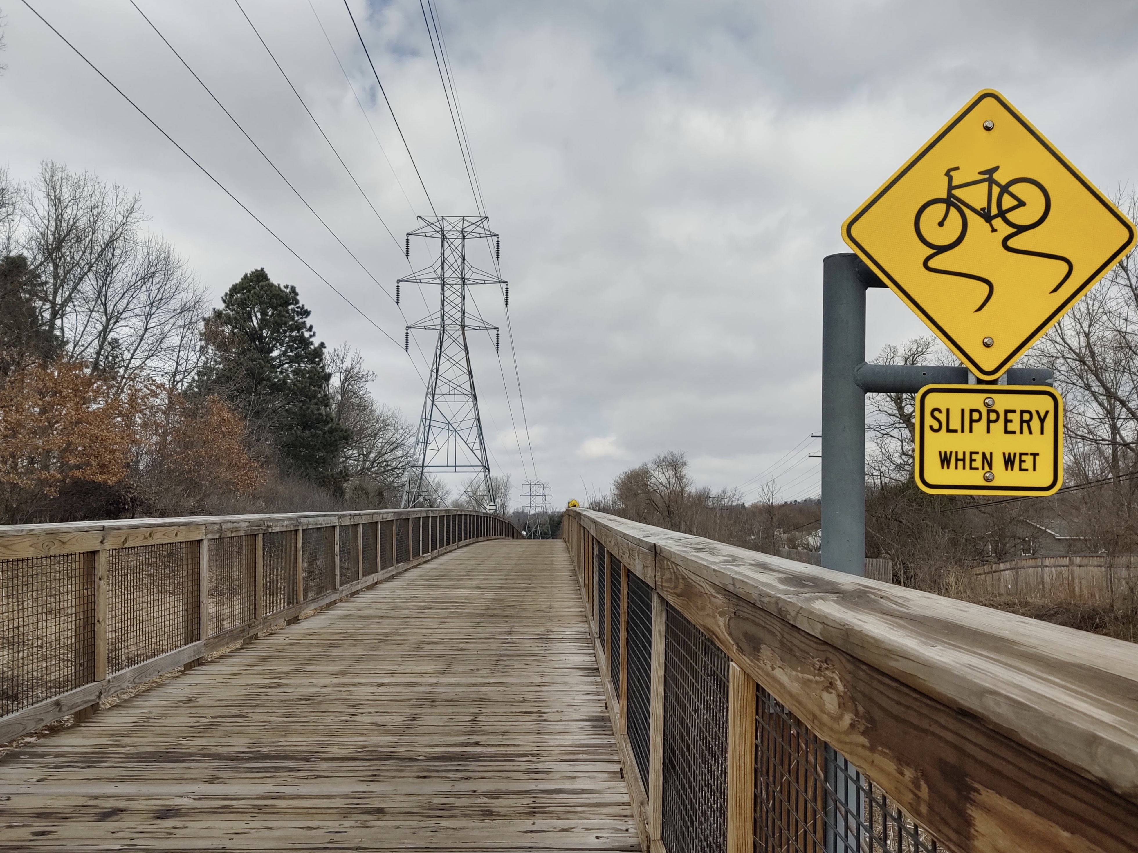 Looking north